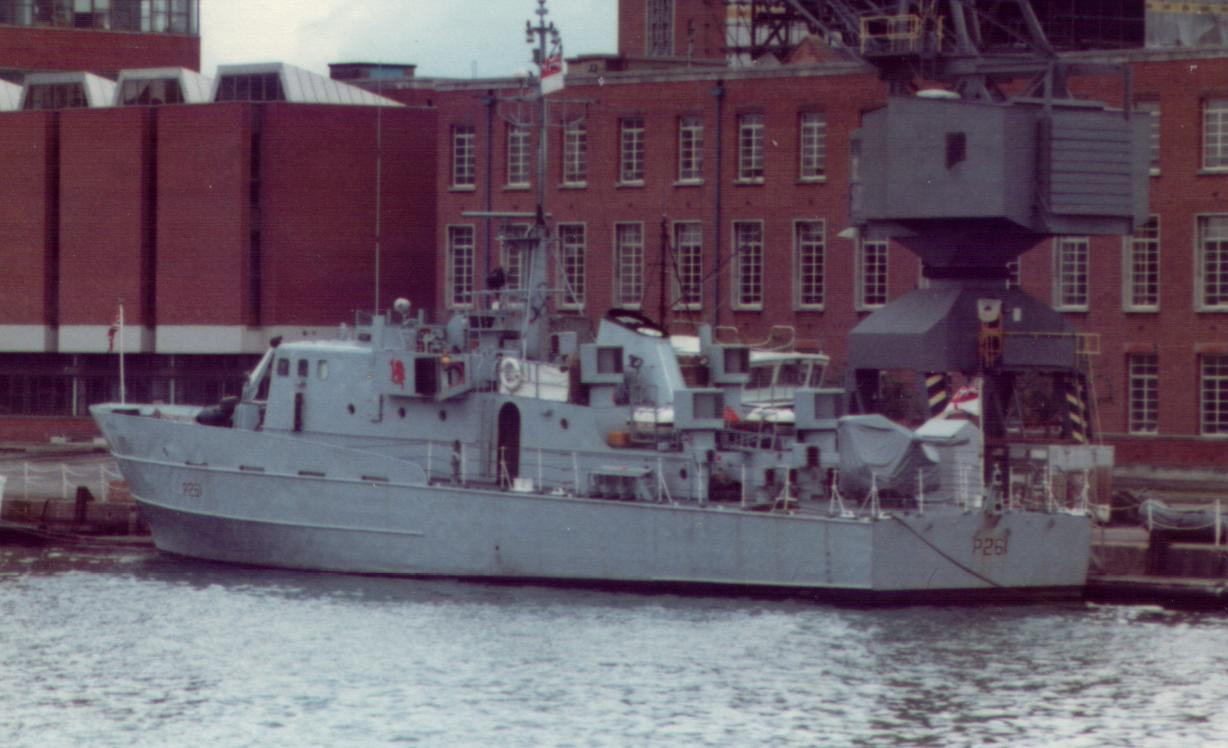 Bird class patrol vessel HMS Cygnet at Portsmouth